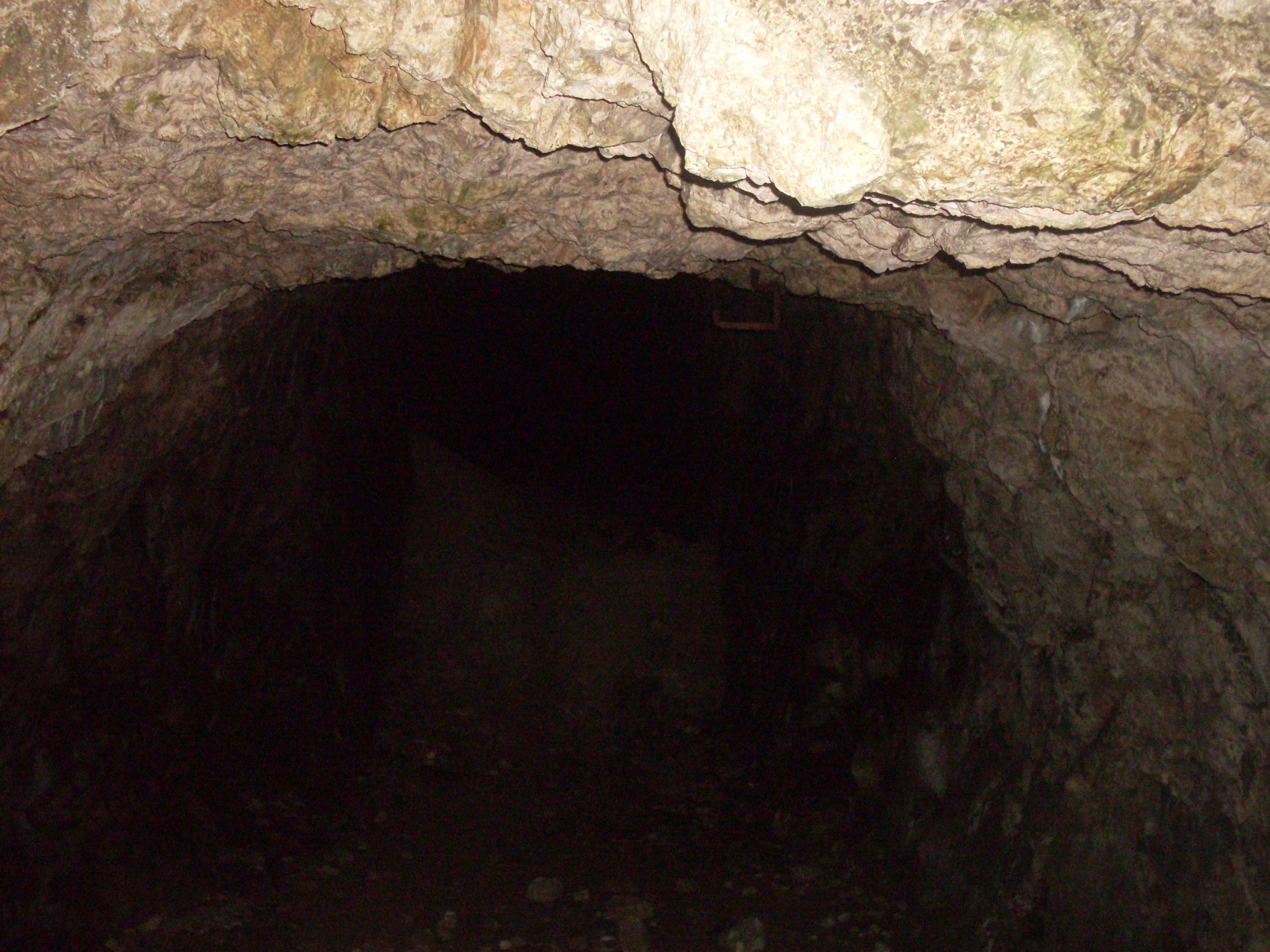 Tenczynek.Góra Buczyna.Wylot piwnic dawnego browaru.